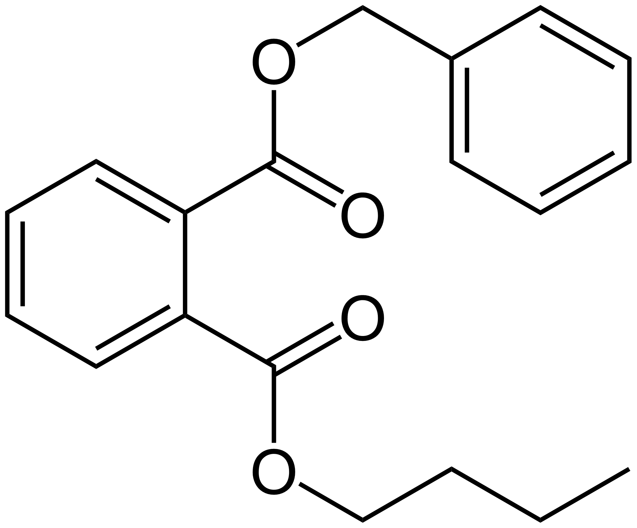 Chemical structure of benzylbutylphthalate